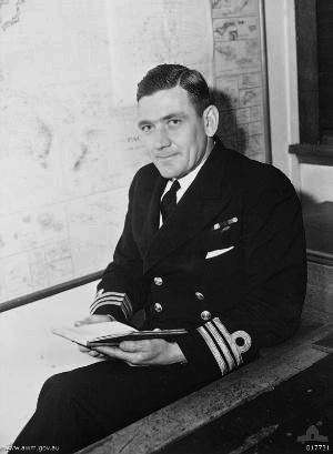 Portrait of Commander (later Rear Admiral) Galfrey Gatacre, a senior officer in the Royal Australian Navy.